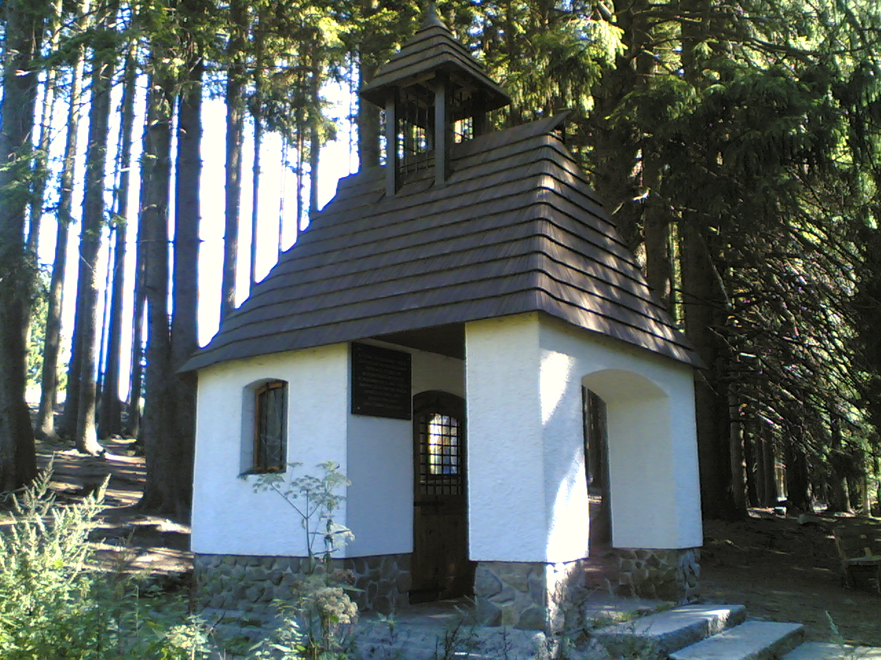 Shrine of st. Anna in Czech town of Železná Ruda.